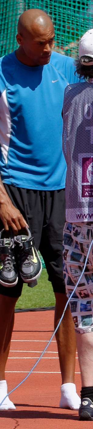 Final of the men's high jump during the French Athletics Championships 2013 at Stade Charléty in Paris, 14 July 2013.